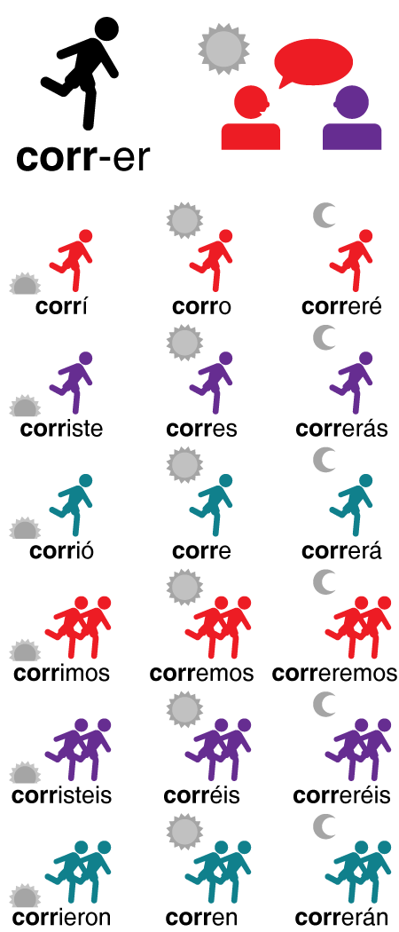 An example of conjugation in Spanish language: "Correr" (meaning "to run", regular 2nd conjugation). Columns mean the tense: past, present and future. Rows mean person and number: 1st singular, 2nd singular, 3rd singular, 1st plural, 2nd plural and 3rd plural.